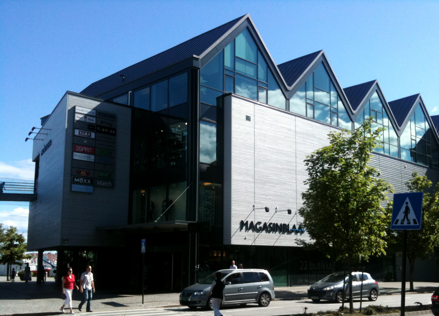 Magasin Blaa a shopping center in Stavanger, Norway